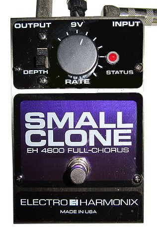 This is An Electro-Harmonix Small Clone EH-4600 full chorus guitar effect pedal. This is a chorus effect pedal for electric guitars. The picture shows the top of the pedal, which is off. The footswitch is the big metallic button on the bottom, while the big black round control is the rate control. On the left of the rate control, is the depth button, witch allows the user to chose between two sounds. On the right is the status led, witch is on, meaning that the effect is enabled (the chorus is active)